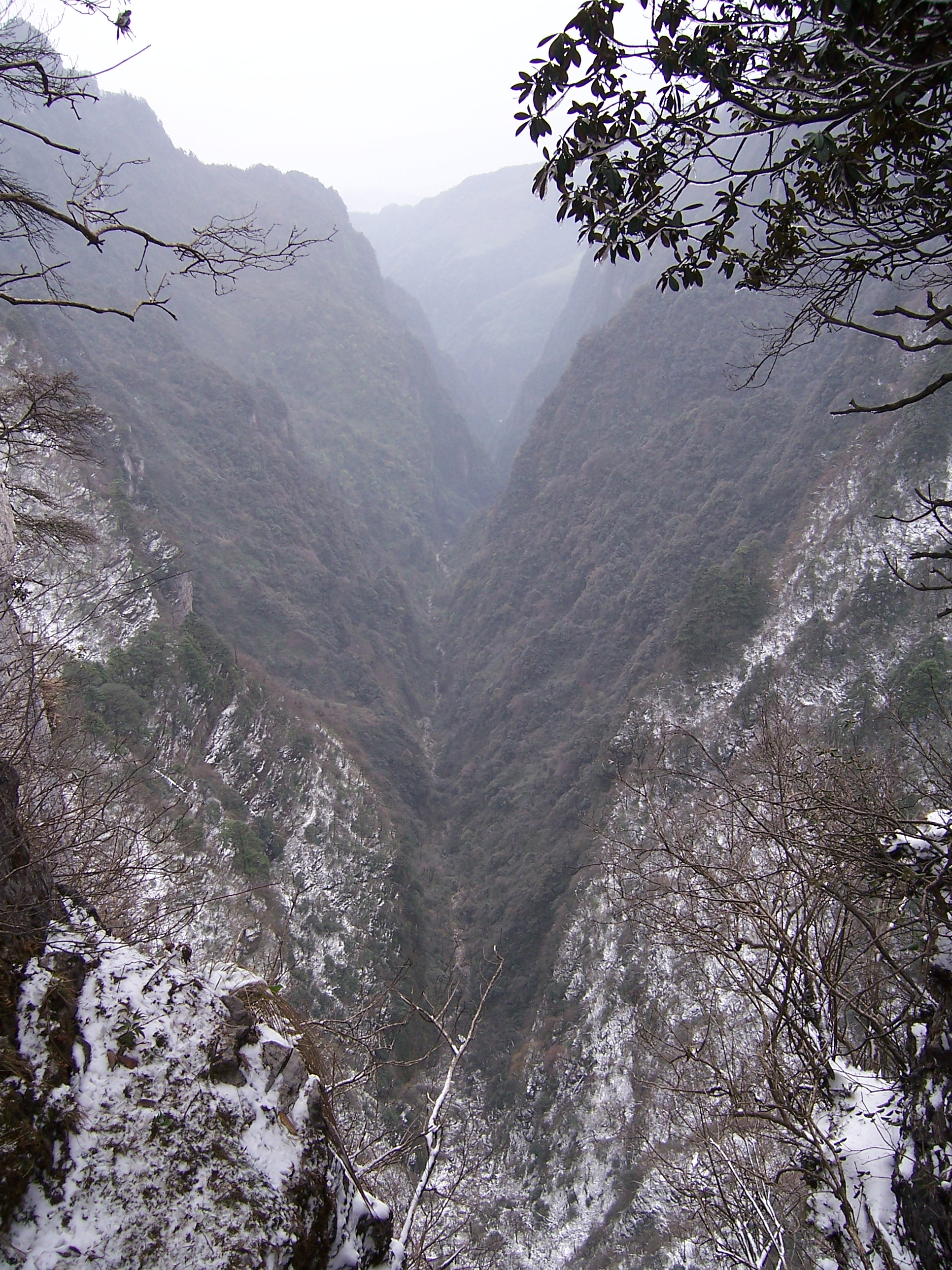 China - Emei Shan 22 - snow-tinged valleys